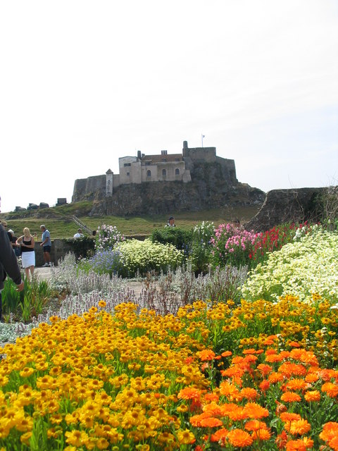 Lindisfarne Castle & its Jekyll Garden This garden was designed by Gertrude Jekyll for a friend of Lutyens. Its exposed position makes it one of the most important gardens in the North of England. It has been altered a little but is largely true to the original concept planned by Jekyll.